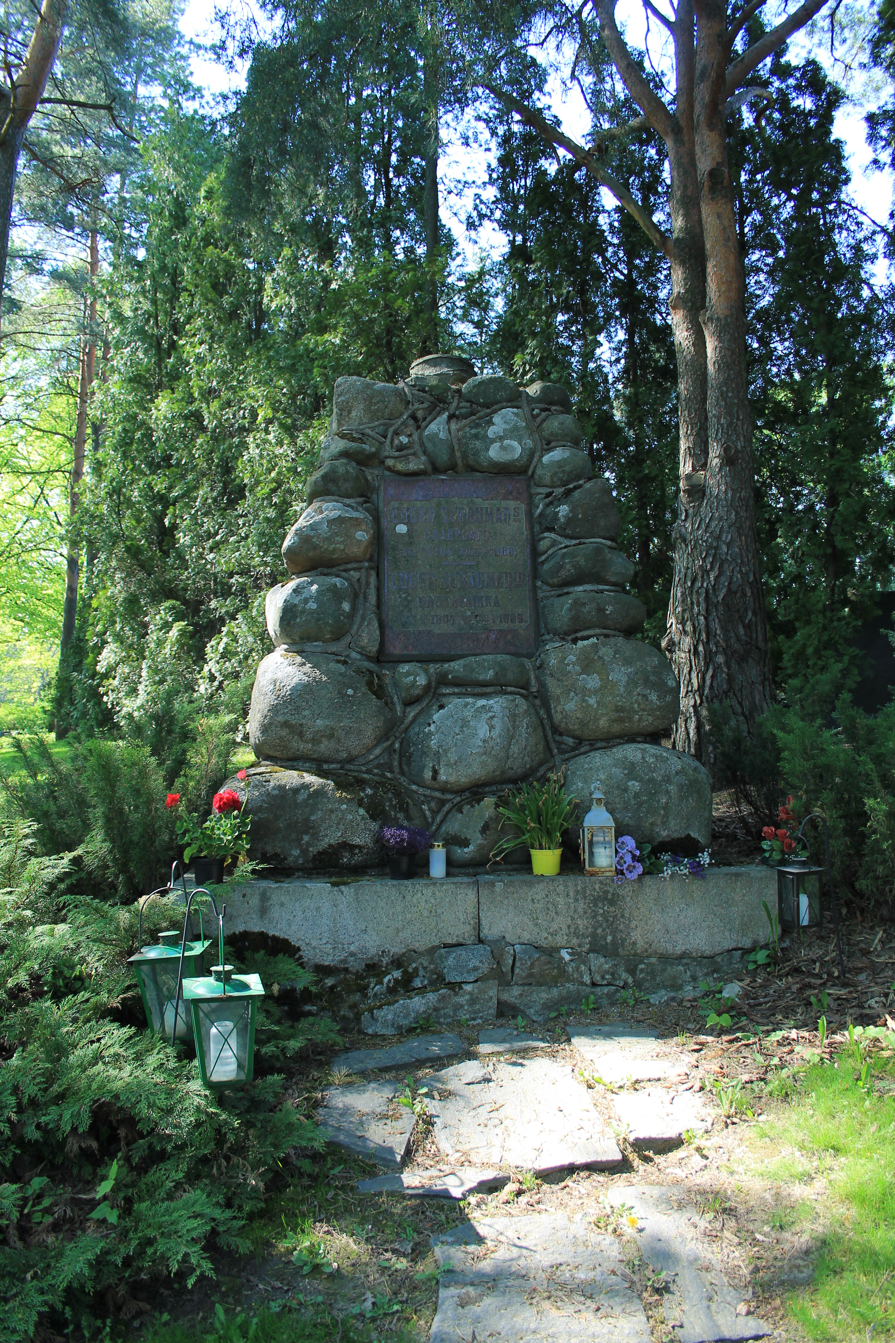 Memorial of Eugen Schauman at the Malmi Cemetery.